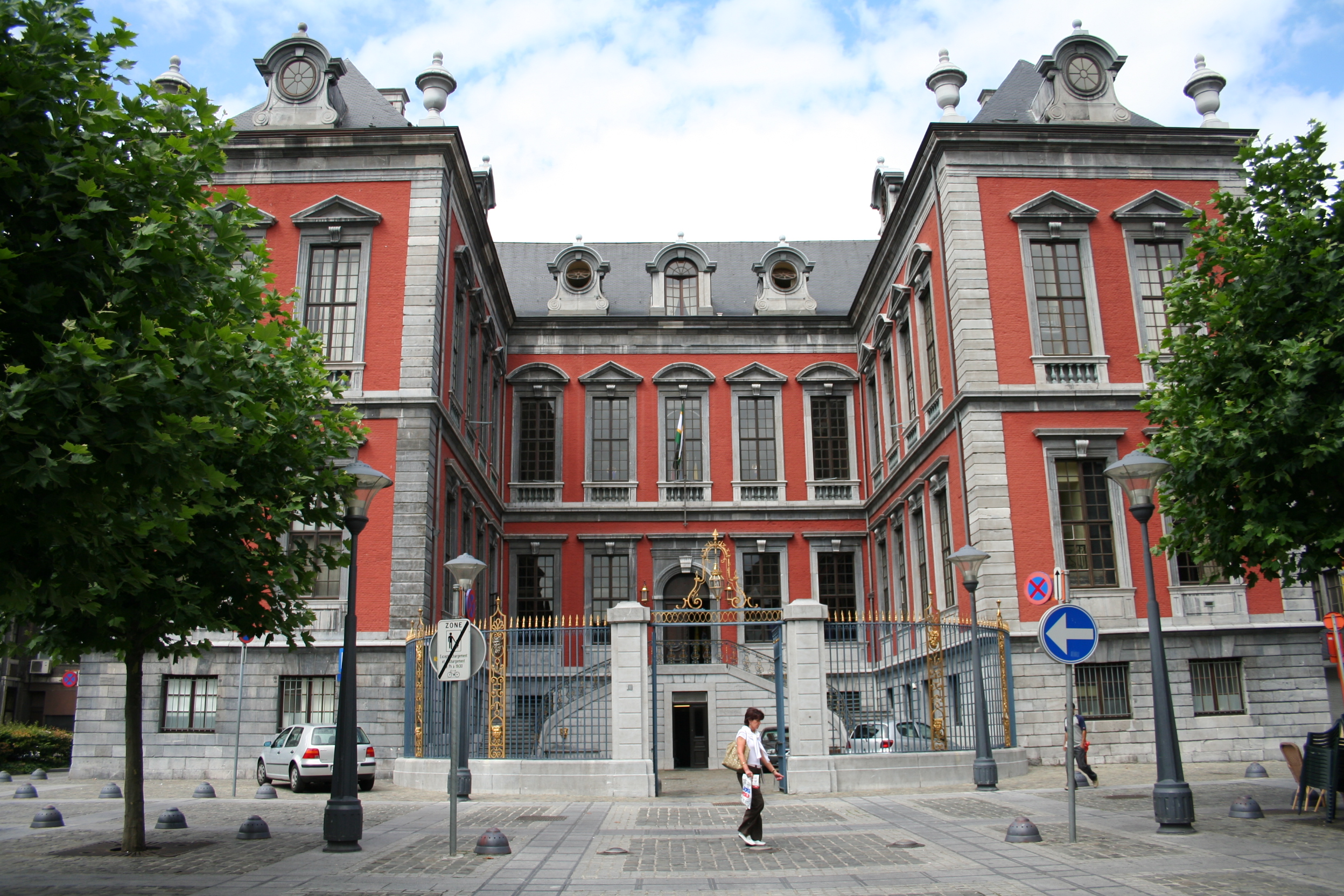 Liège (Belgium), the town hall (1714).